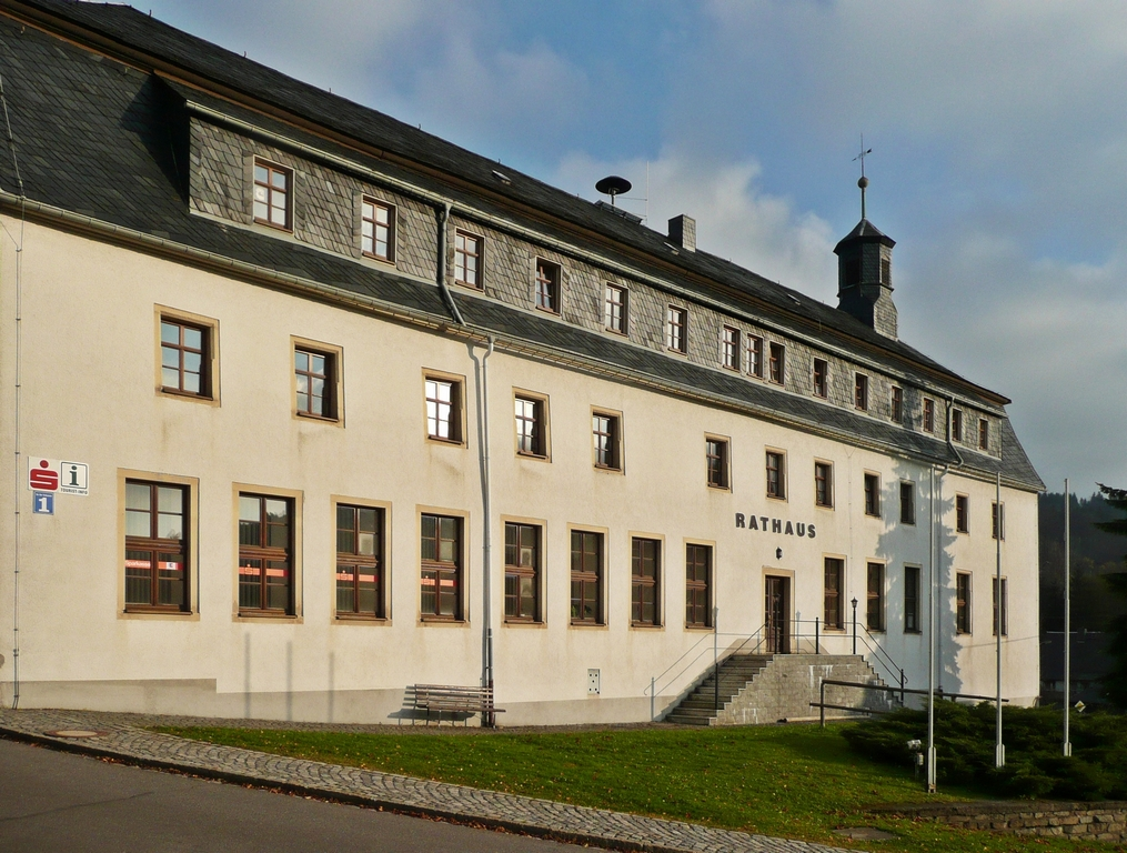 This image shows the town hall of Rechenberg-Bienenmühle in Rechenberg in the Eastern Ore Mountains.